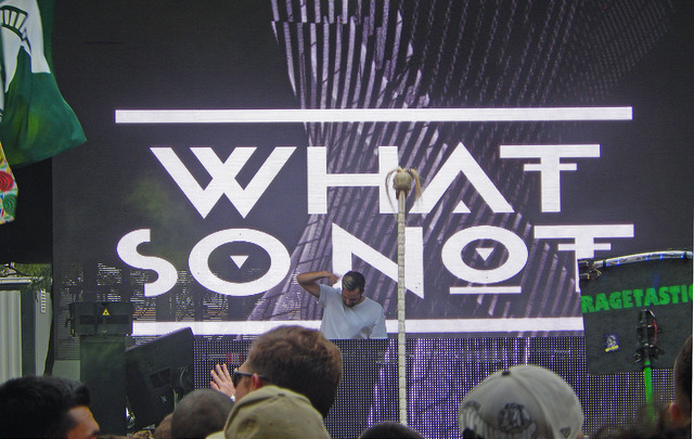 An image of What So Not, AKA Chris Emerson, performing in front of a crowd at the North Coast Music Fest, Chicago. Will be used at Not All the Beautiful Things.